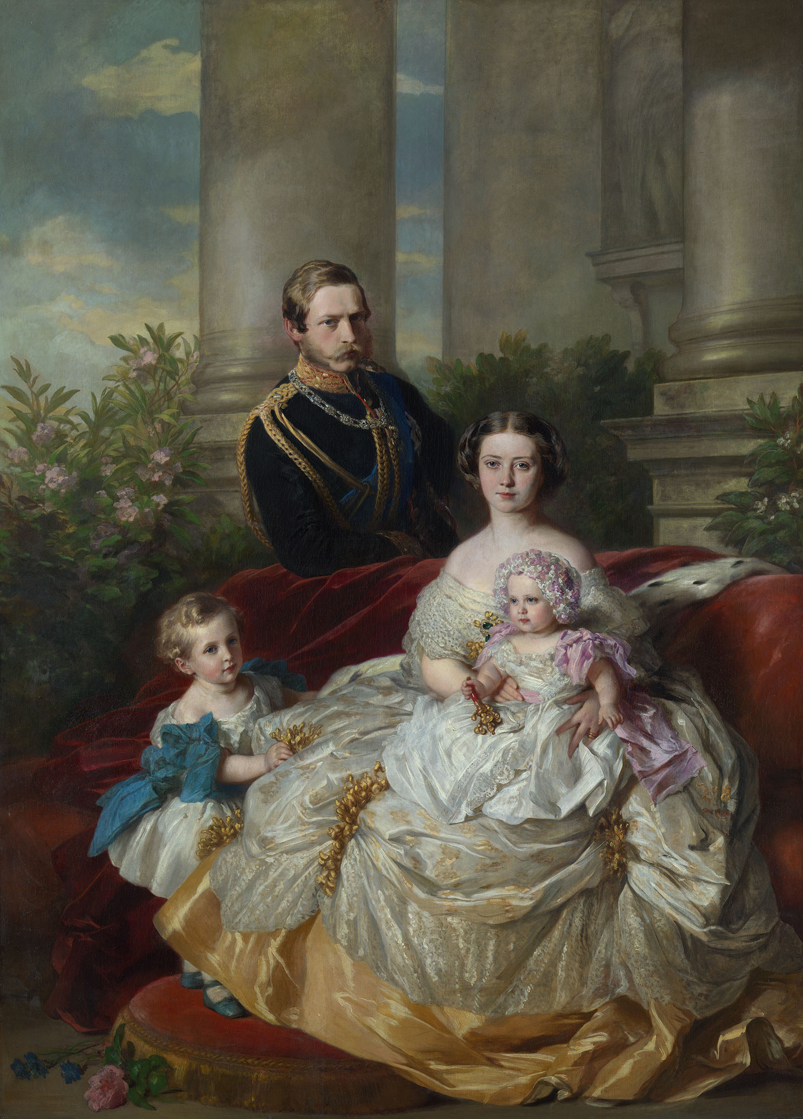 Emperor Frederick III of Germany, King of Prussia with his wife, Empress Victoria, and their children, Prince William und Princess Charlotte.